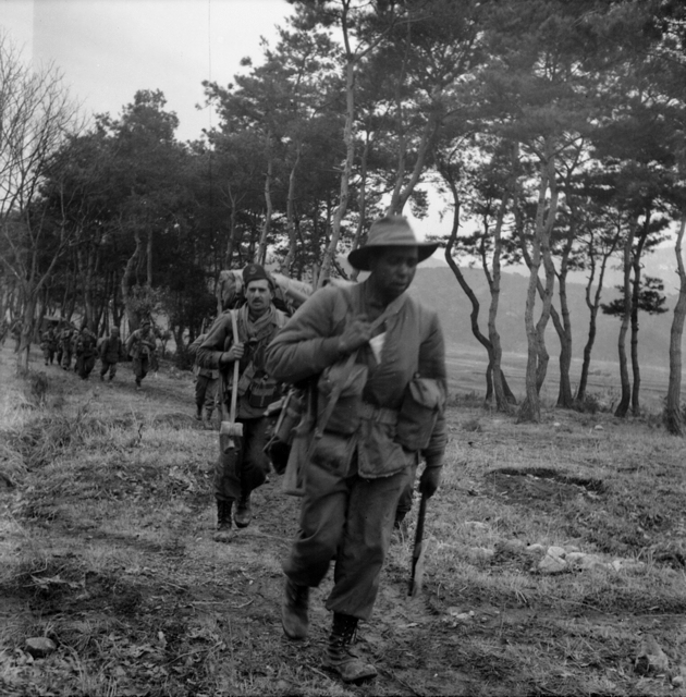 Captain Reg Saunders leading his company forward, possibly during its advance to the Benton Line. Saunders is carrying a trenching tool in his left hand.